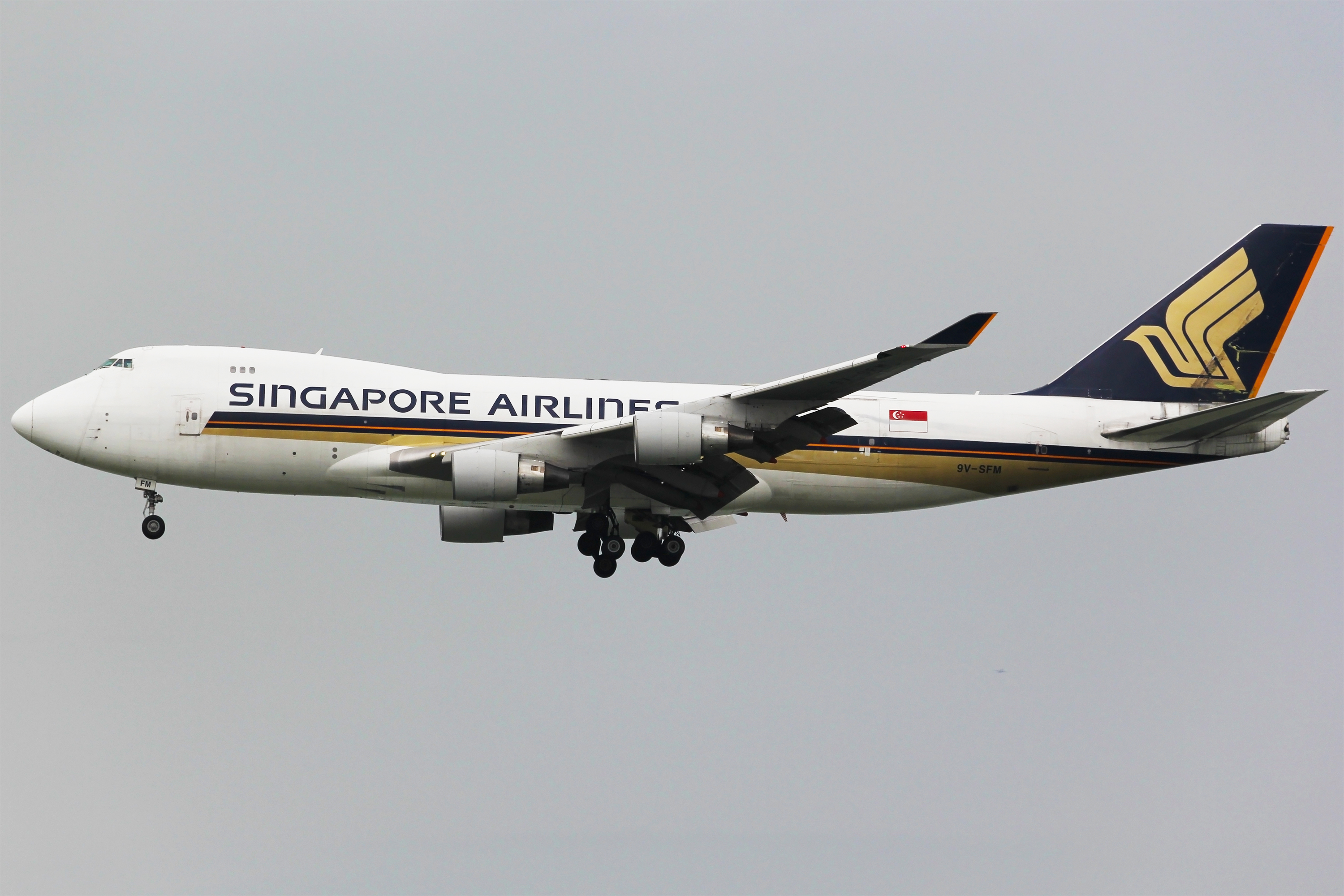 Singapore Airlines Cargo Boeing 747-412F(SCD) (9V-SFM) approaching Hong Kong International Airport.中文（中国大陆）: 新加坡航空货运一架波音747-412F(SCD) (9V-SFM) 在香港国际机场降落。中文（香港）: 新加坡航空貨運一架波音747-412F(SCD) (9V-SFM) 在香港國際機場降落。